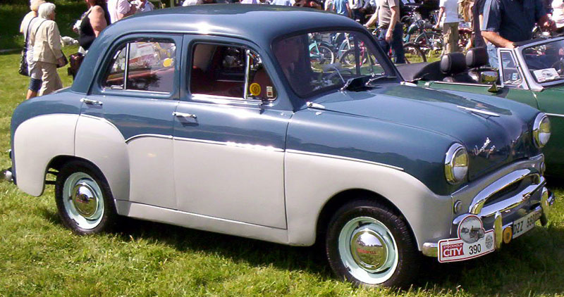 Standard Vanguard Junior 4-Door Saloon 1956